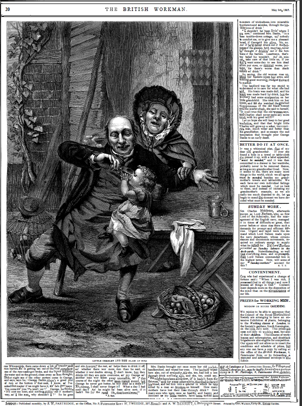 Scan of a single page of "The BRitish Workman" 1865